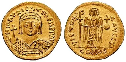 Maurice Tiberius, 582-602 AD, AV solidus (4.47 gm). Constantinople. D N MAVRIC TIbER PP AVI, crowned, cuirassed bust facing, holding cross on globe and shield / VICTORI-A AVGG and officina letter, angel standing facing, holding staff surmounted by Chi-Rho in right hand and cross on globe in left, mintmark CONOB.. Berk 81. Cf. DO 4 (officina Z). MIB 5. Sear 477.